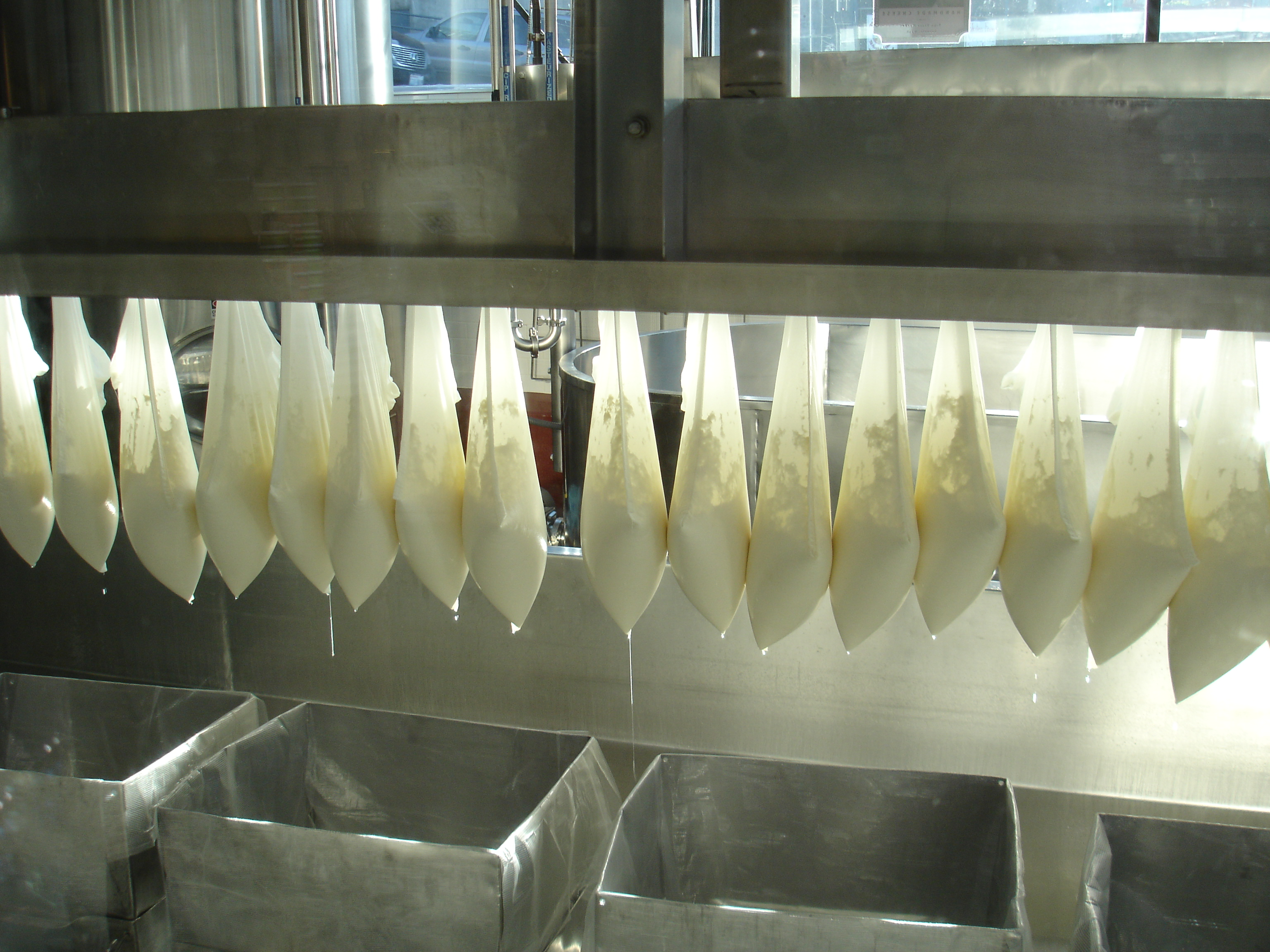 Cheese dripping at Beecher's Handmade Cheese, Pike Place Market, Seattle, Washington, USA